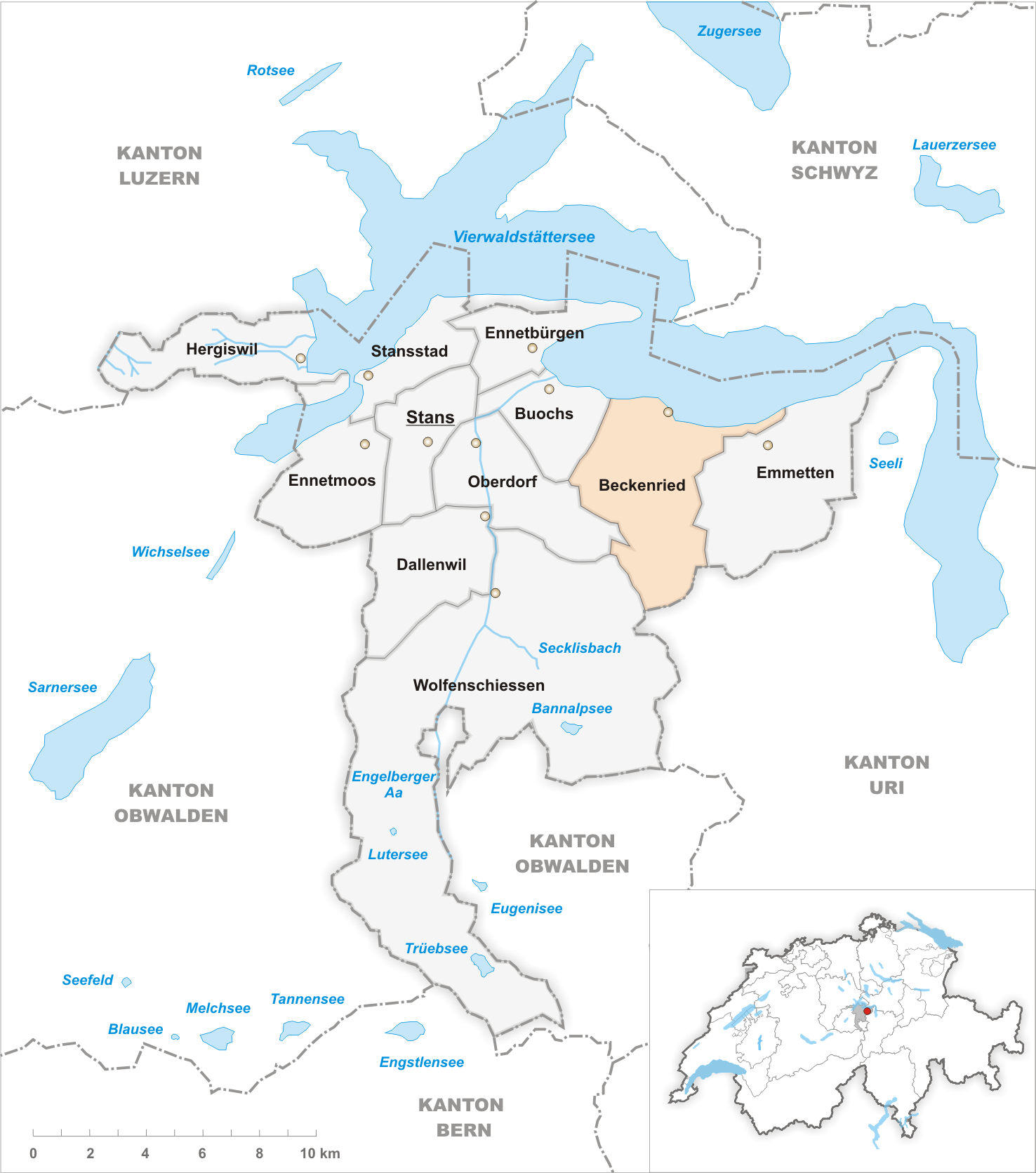 Municipality Beckenried